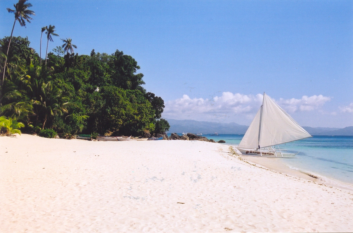 A beach of Boracay Island in the Philippines. Picture taken by Magalhães in 2003